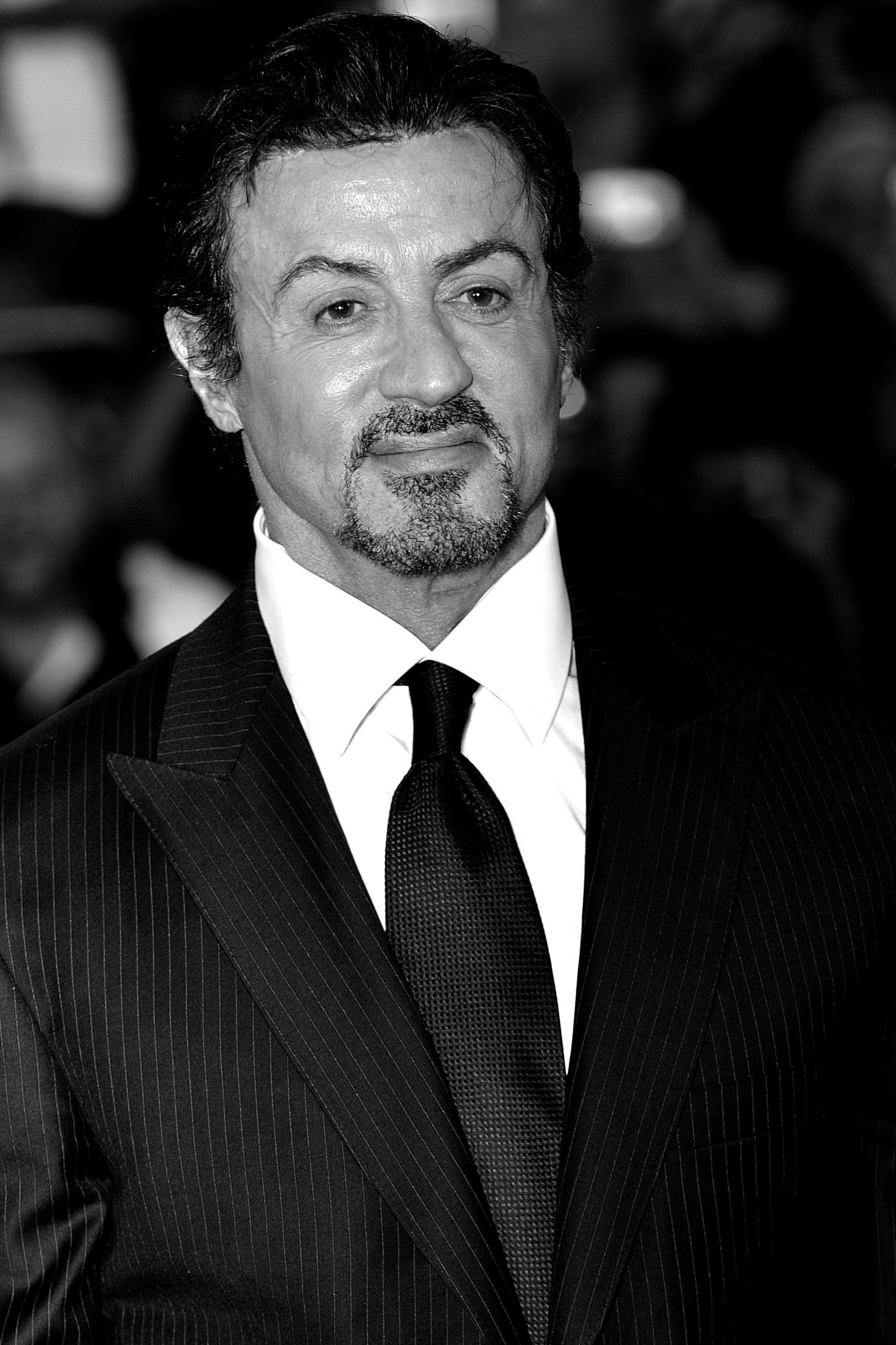 Actor Sylvester Stallone - 66th Venice International Film Festival.